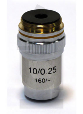 objective for Altami microscope